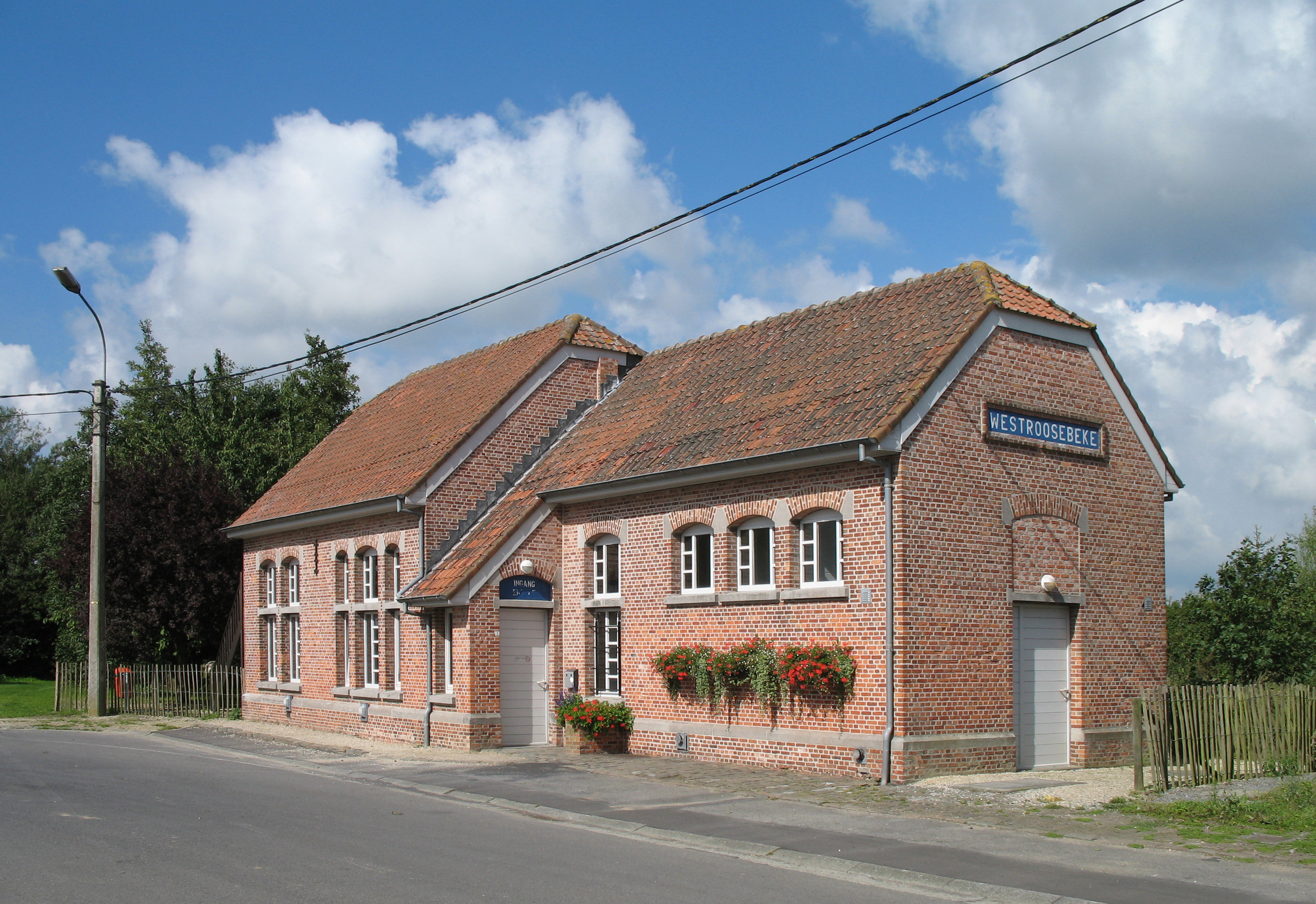 The former railway station of Westrozebeke (municipality of Staden, province of West Flanders, Belgium)